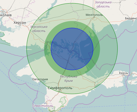 Map of the approximate area covered by the new radio-tv broadcasting mast built near village Chonhar, Kherson oblast, Ukraine. blue: TV signal range, up to 60 km dark green: reliable radio range, up to 80 km light green: maximum radio range, up to 130 km Geographic base: OpenStreetMaps tiles layer. Rendering: Leaflet, an open-source JavaScript library for interactive maps.